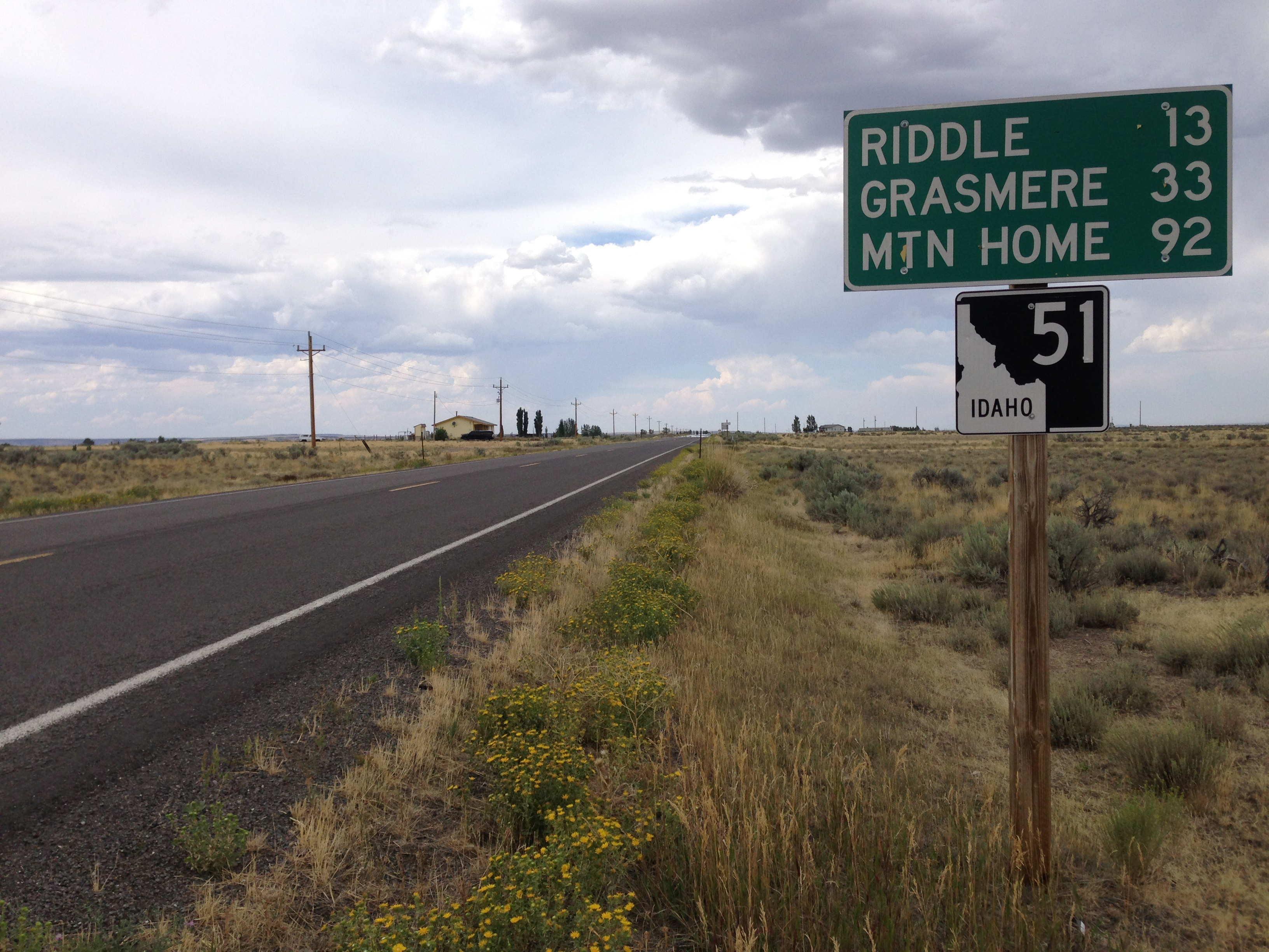 First reassurance sign and mileage distance sign along northbound Idaho State Highway 51